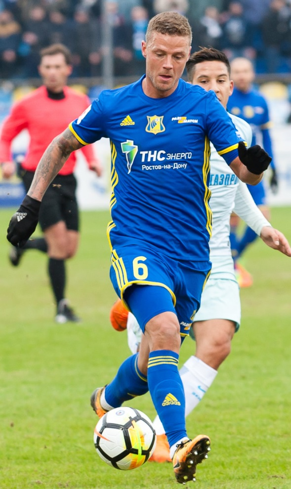 Ragnar Sigurðsson with FC Rostov in a game against FC Zenit St. Petersburg.